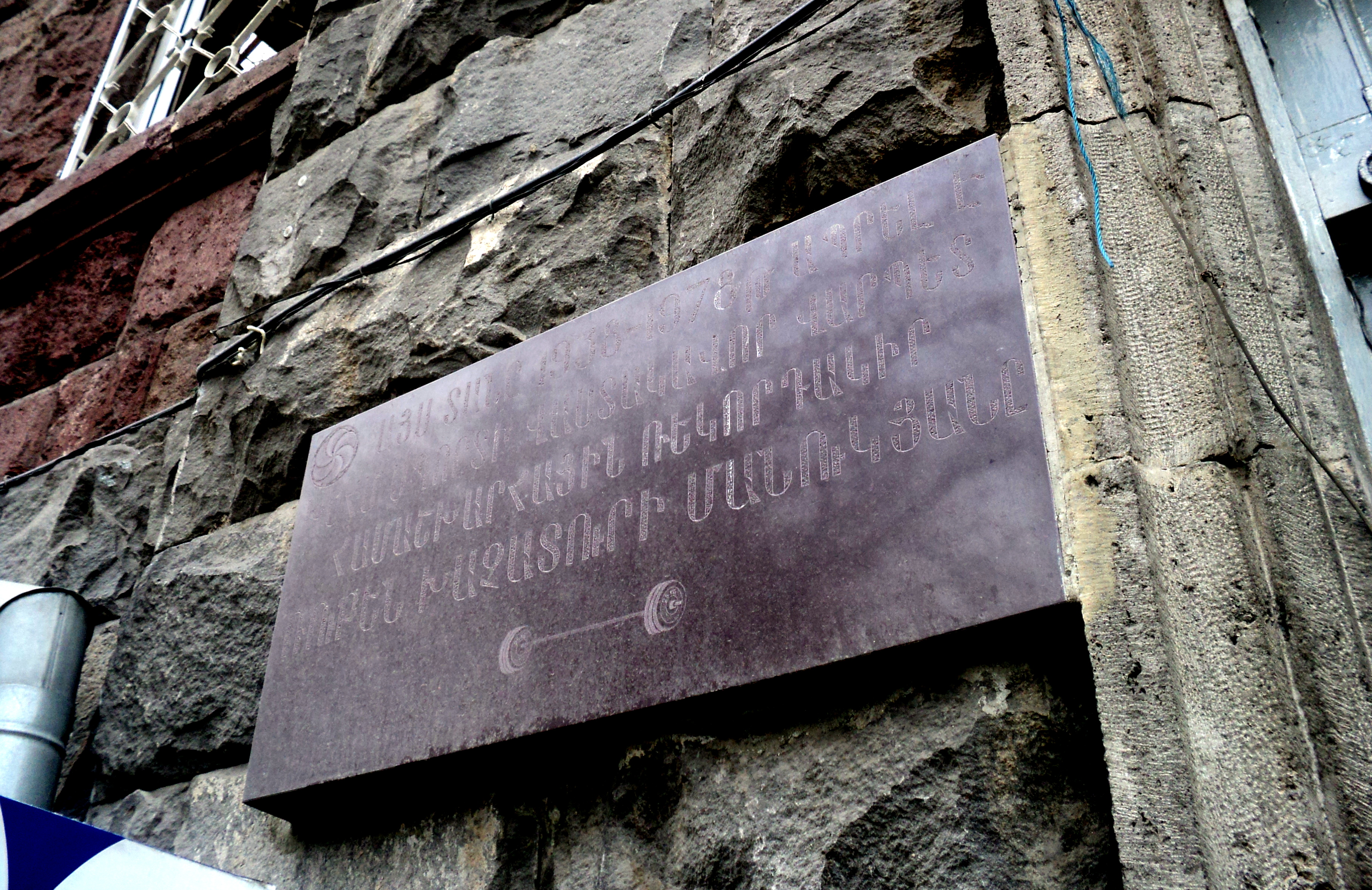 Ruben Khachaturi Manukyan's plaque